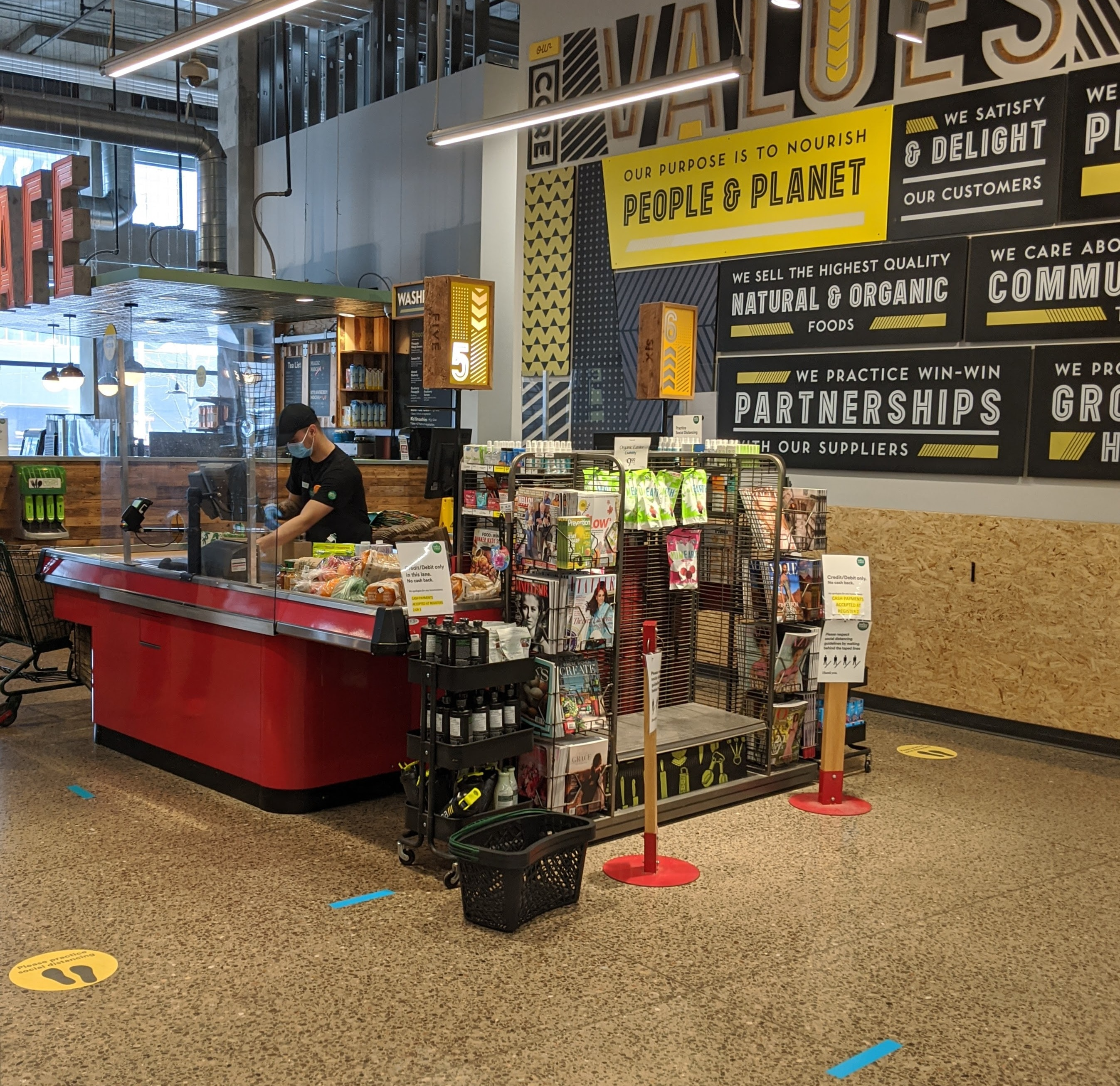 Whole Foods Market in Toronto